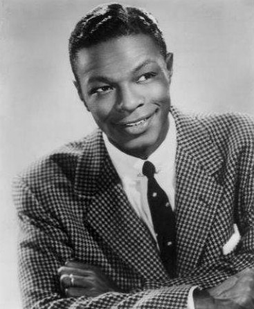 Photo of Nat King Cole.